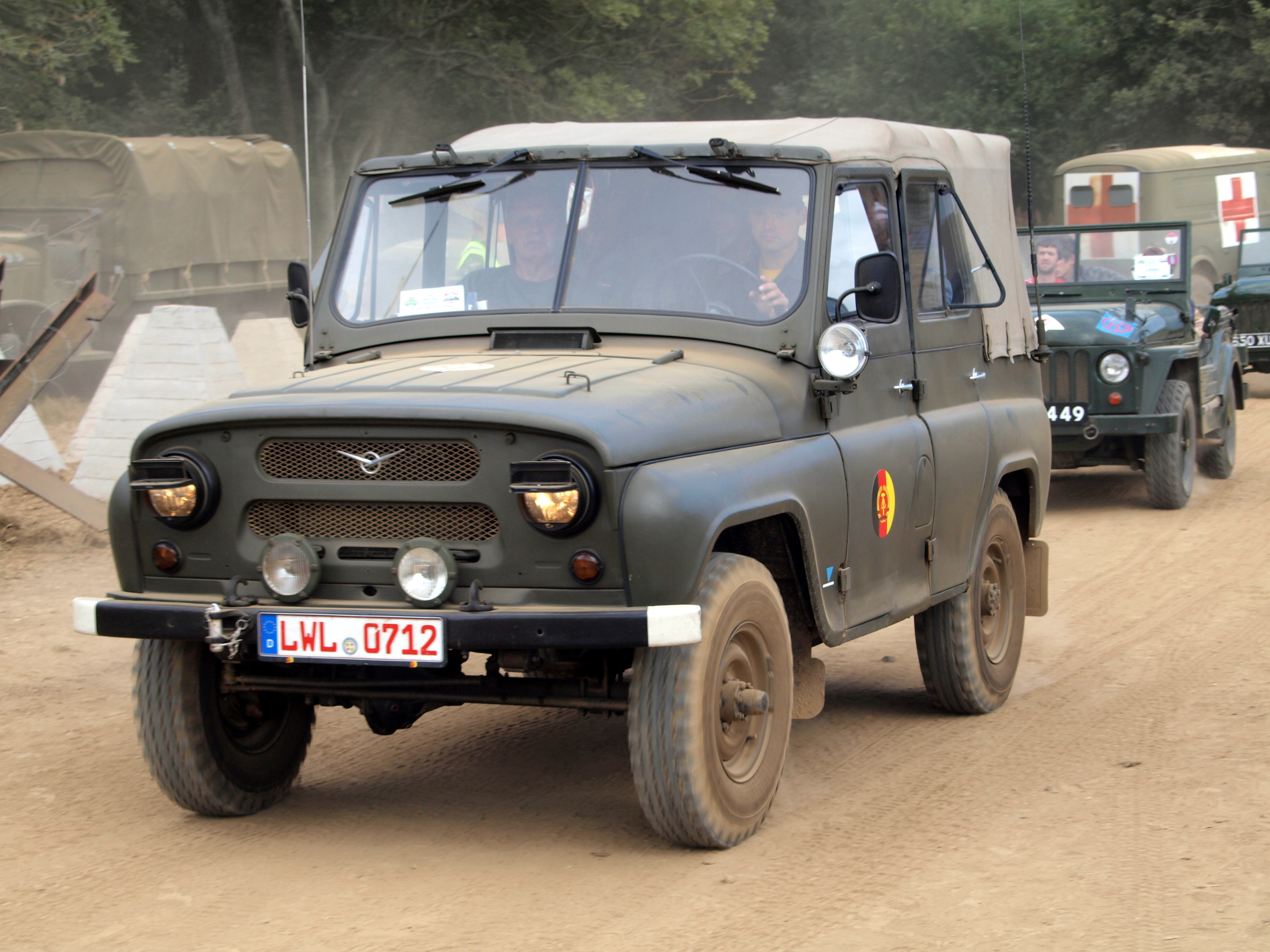 Photographed at the War & Peace show.